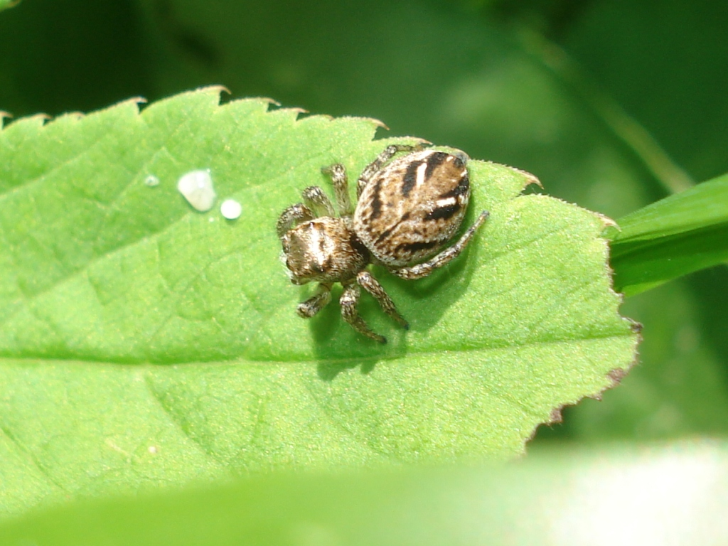 Evarcha arcuata